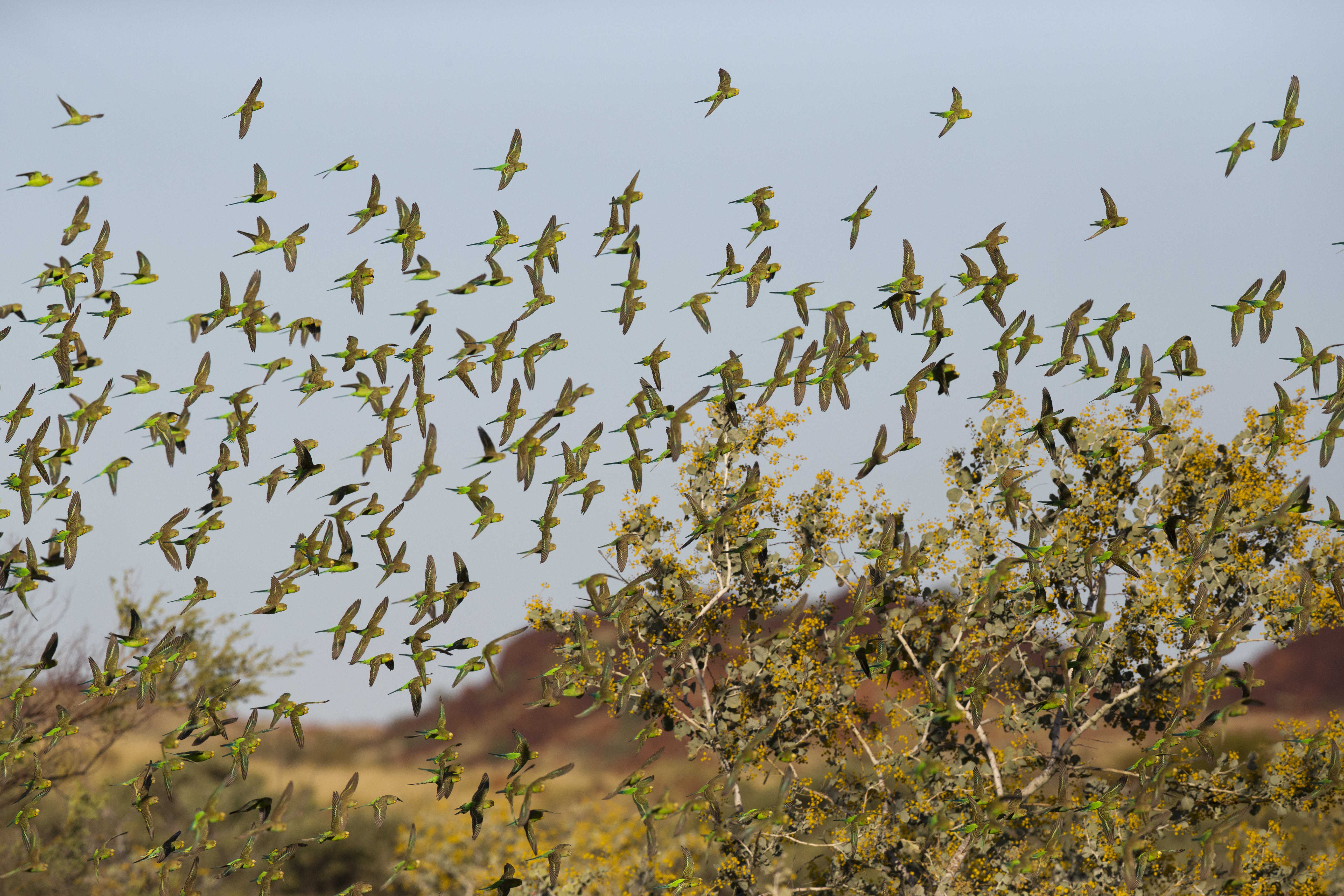 Budgerigar Melopsittacus undulatus flock, Karratha, Pilbara region, Western Australia